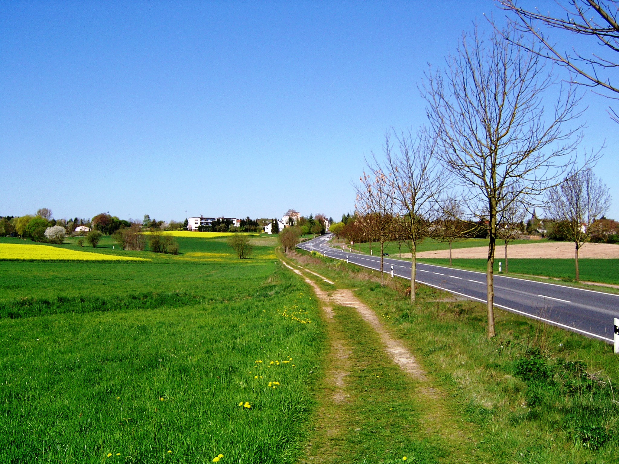 Lindenholzhausen, Germany, from the south-east